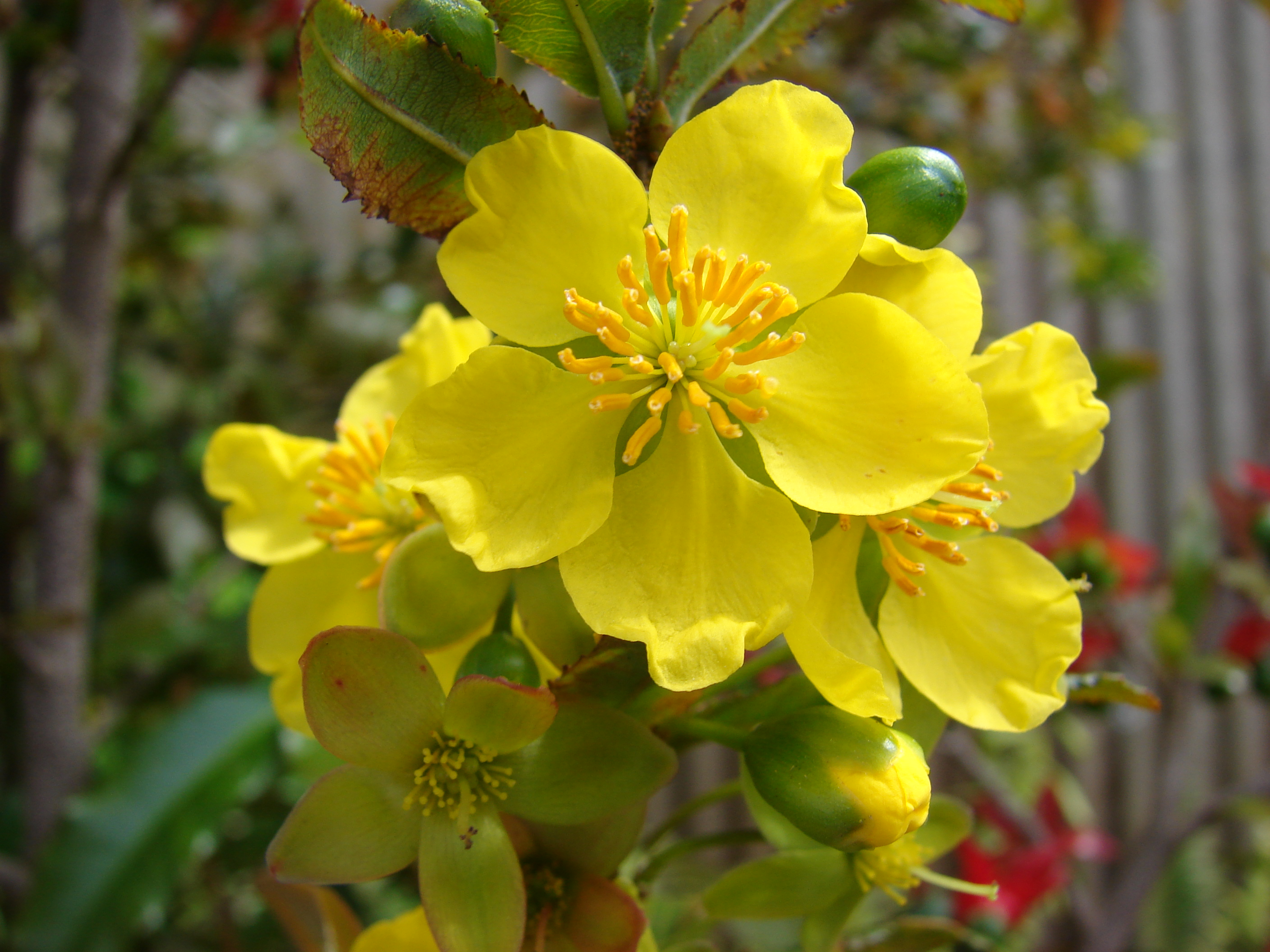 Ochna serrulata (flowers). Location: Maui, Kula Experimental Station